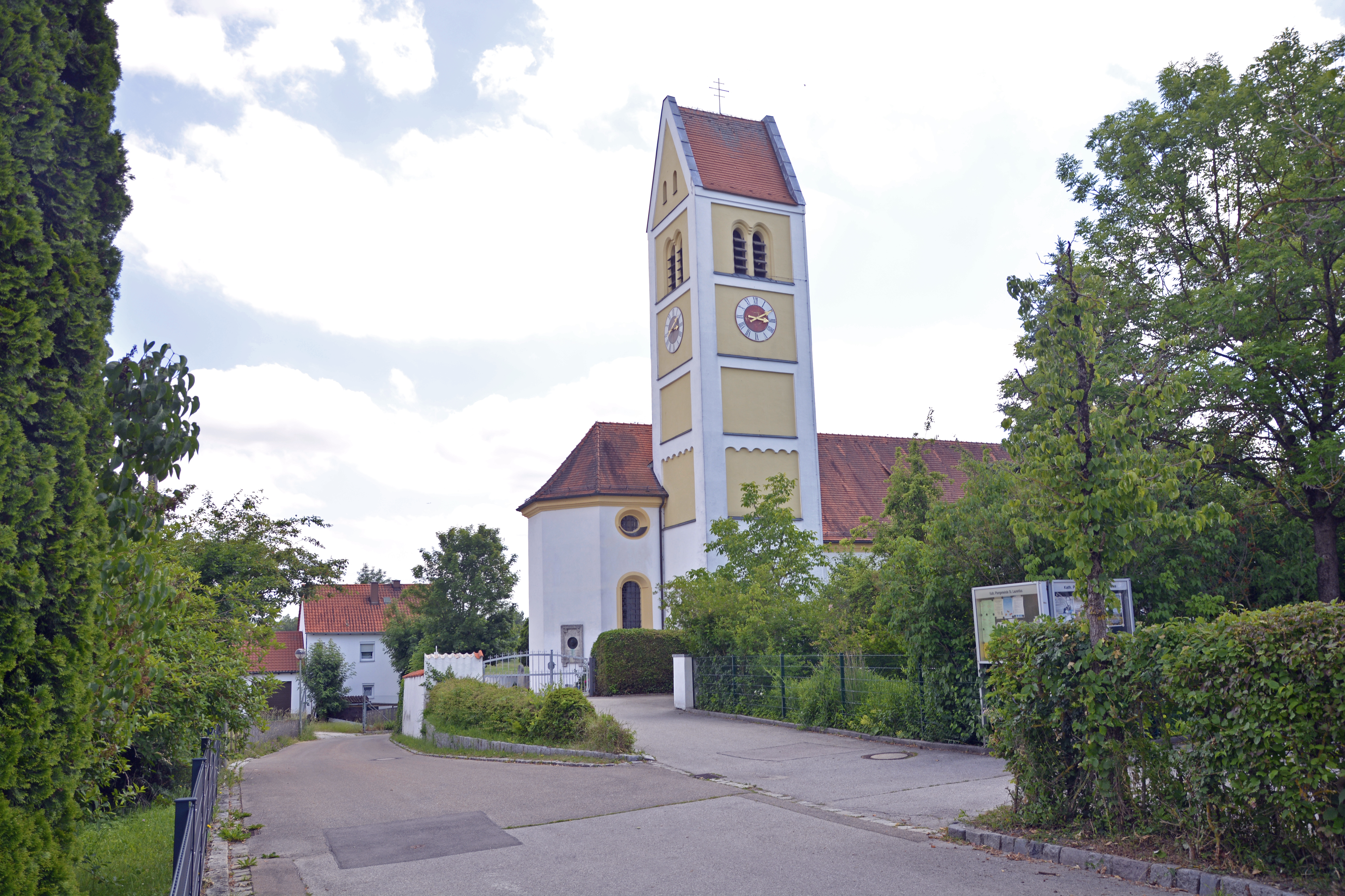 St. Lawrence Church in Petershausen